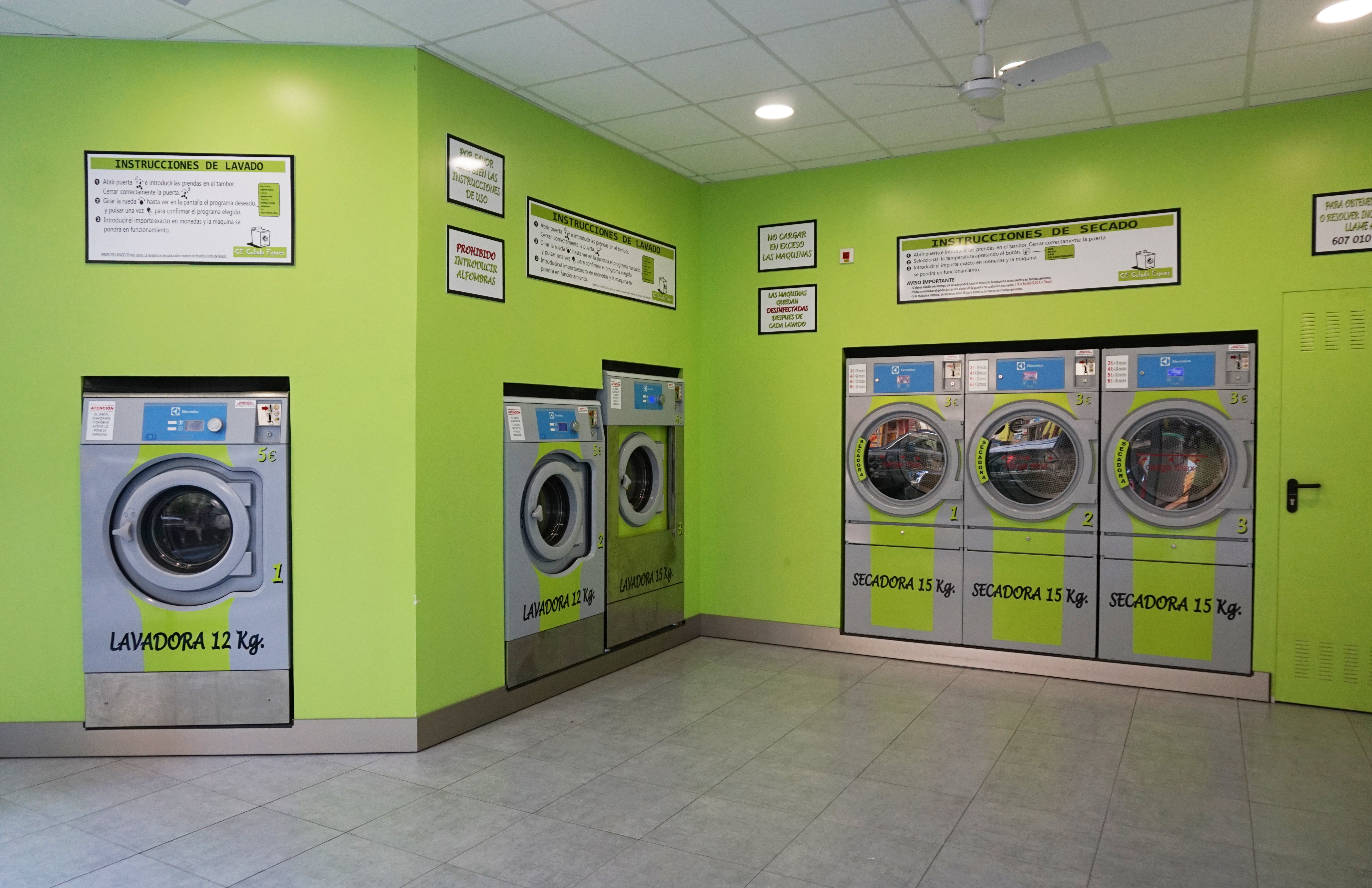 CE Colada Expres laundry in Santander, Spain. This photograph was taken with a Sony Alpha a5000.